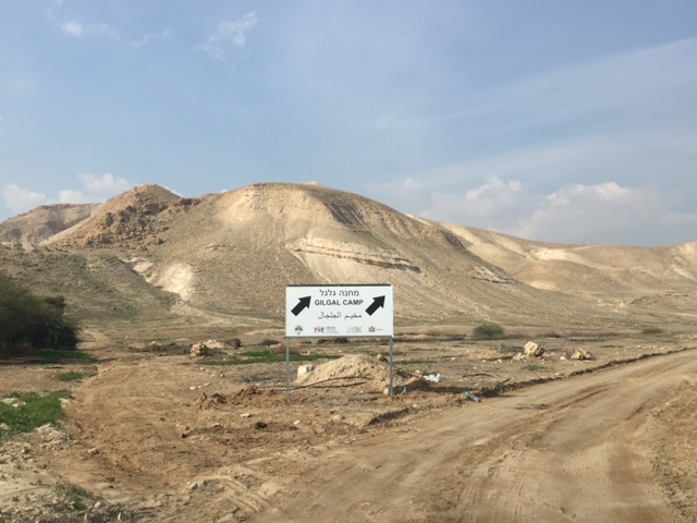 The place where Joshua and israelites arrived. Mount where it´s believed the israelites were circumcised.